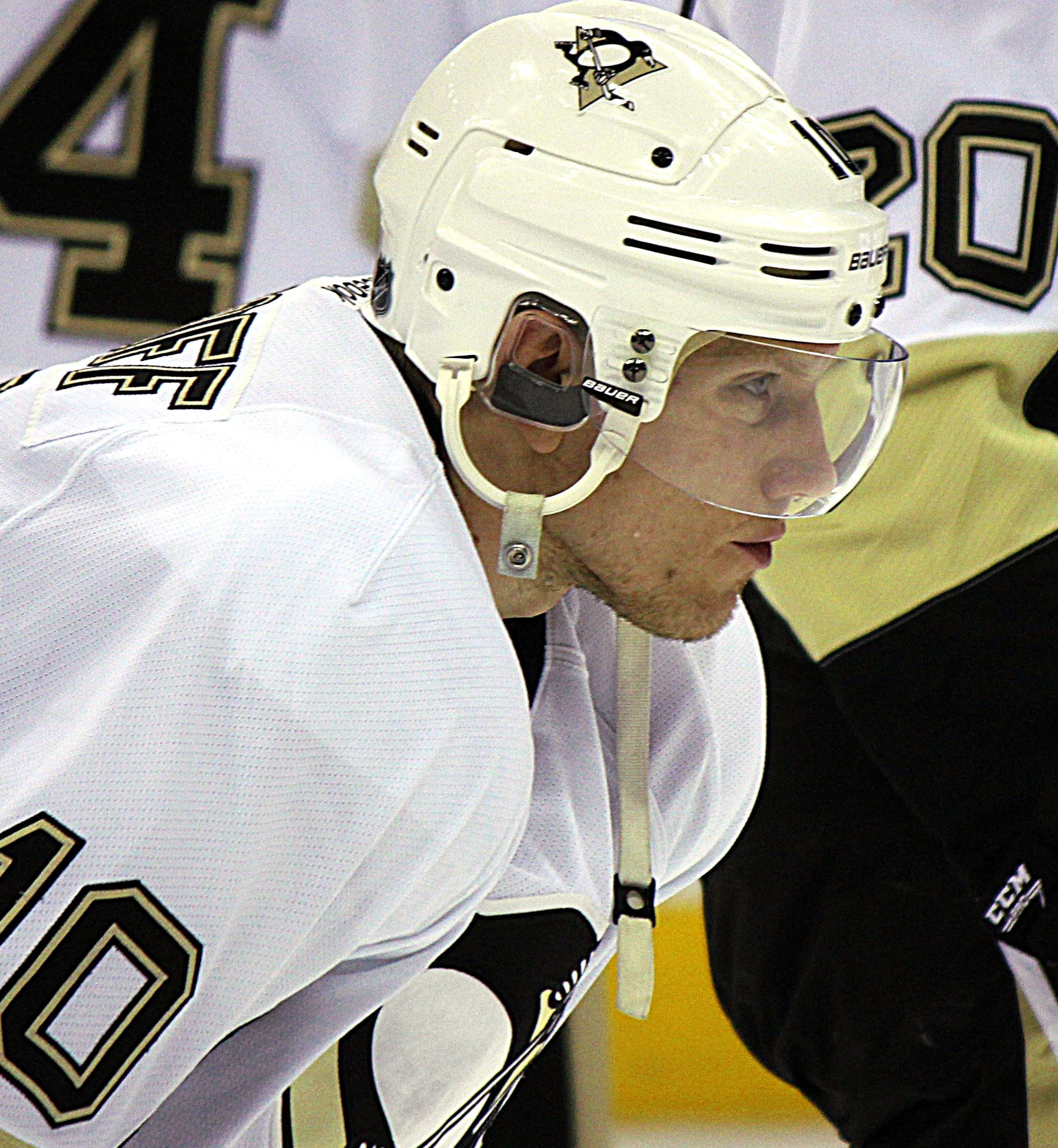 Pittsburgh Penguins defenseman Christian Ehrhoff during a game against the Columbus Blue Jackets, December 13, 2014, at Nationwide Arena in Columbus, OH.